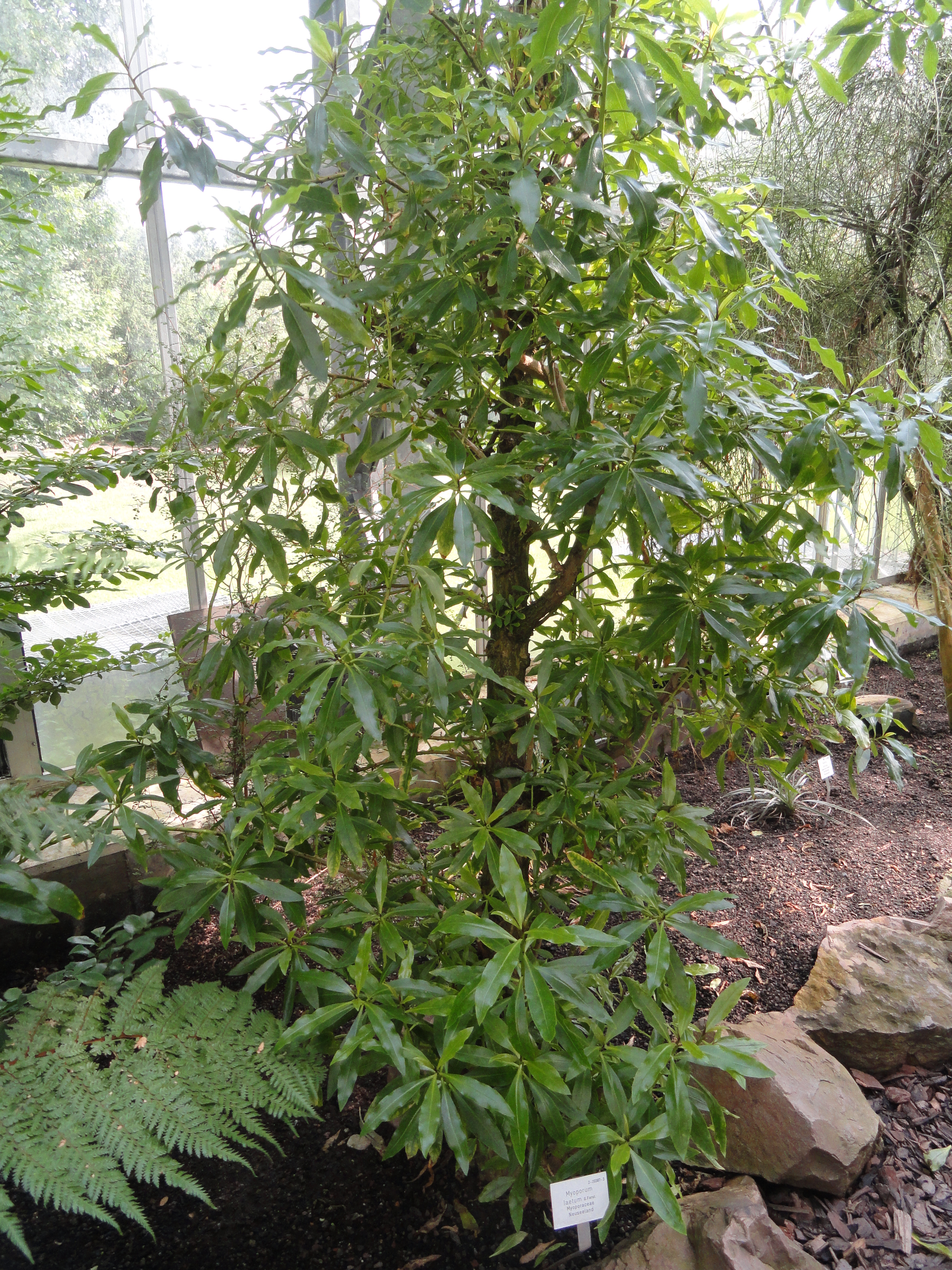 Botanical specimen in the Palmengarten, Frankfurt am Main, Germany.